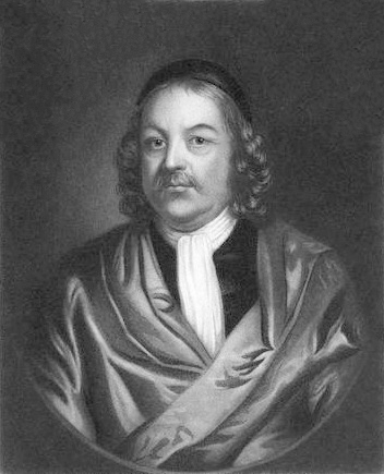 "Simon Bradstreet," from Henry W. Smith's "The Signers to the Declaration of Independence," pubished 1854. Courtesy of the New York Public Library Digital Collection.